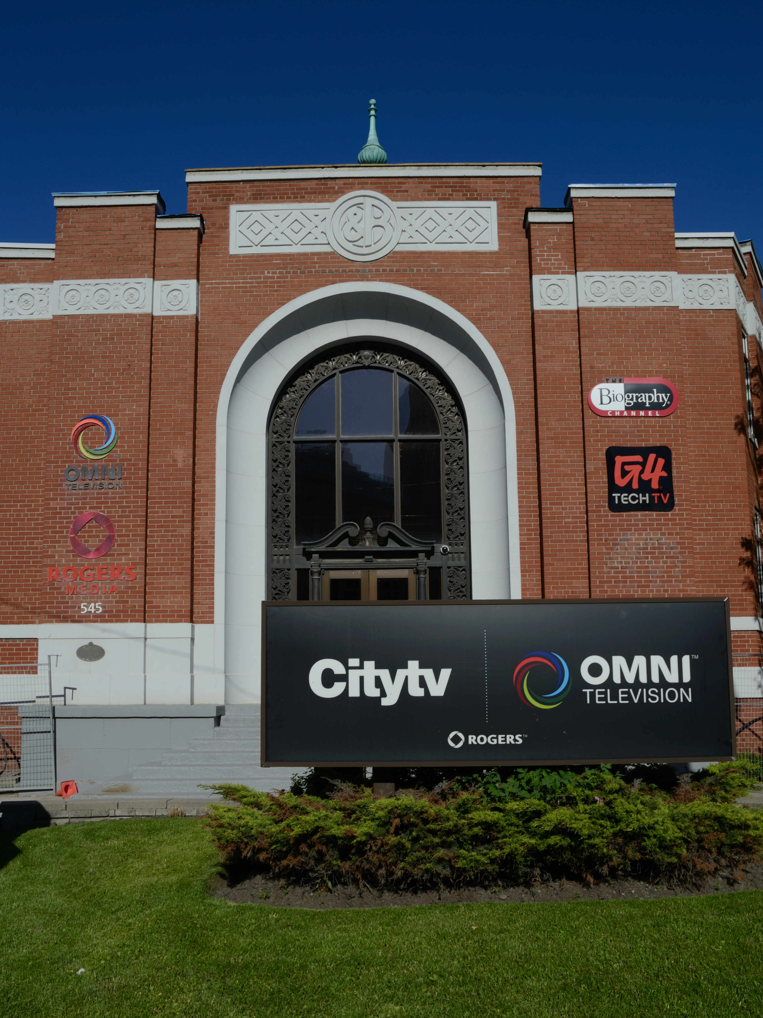 Omni Television 545 Lake Shore Blvd. West Toronto, Ontario, Canada